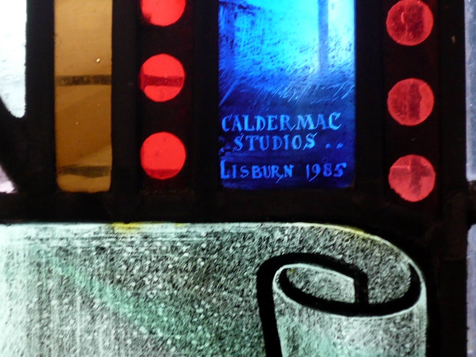 Makers' mark of British stained glass artists and manufacturers Caldermac Studios featured in a stained glass window in Carrickfergus Congregational Church, Carrickfergus, Co. Antrim, Northern Ireland